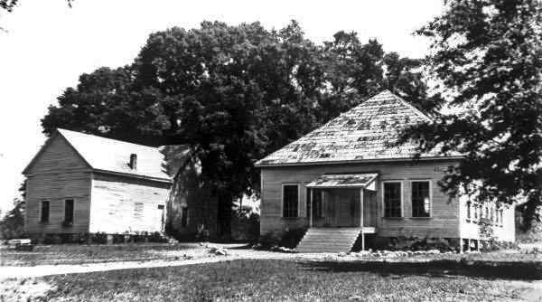 This picture is undated. Both buildings were part of the school. It began as a whites-only school at least as far back as the 1870s. From 1929, when the whites built a new school, it was black only. It closed with the integration of Leon County schools about 1967.